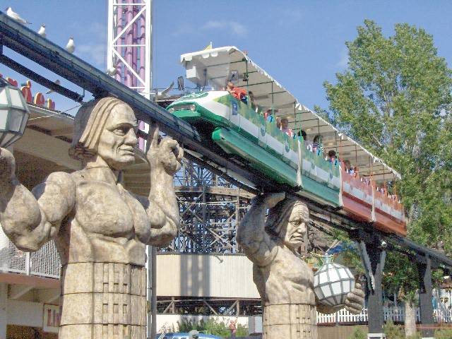 Maisemajuna monorail in Linnanmäki, Helsinki